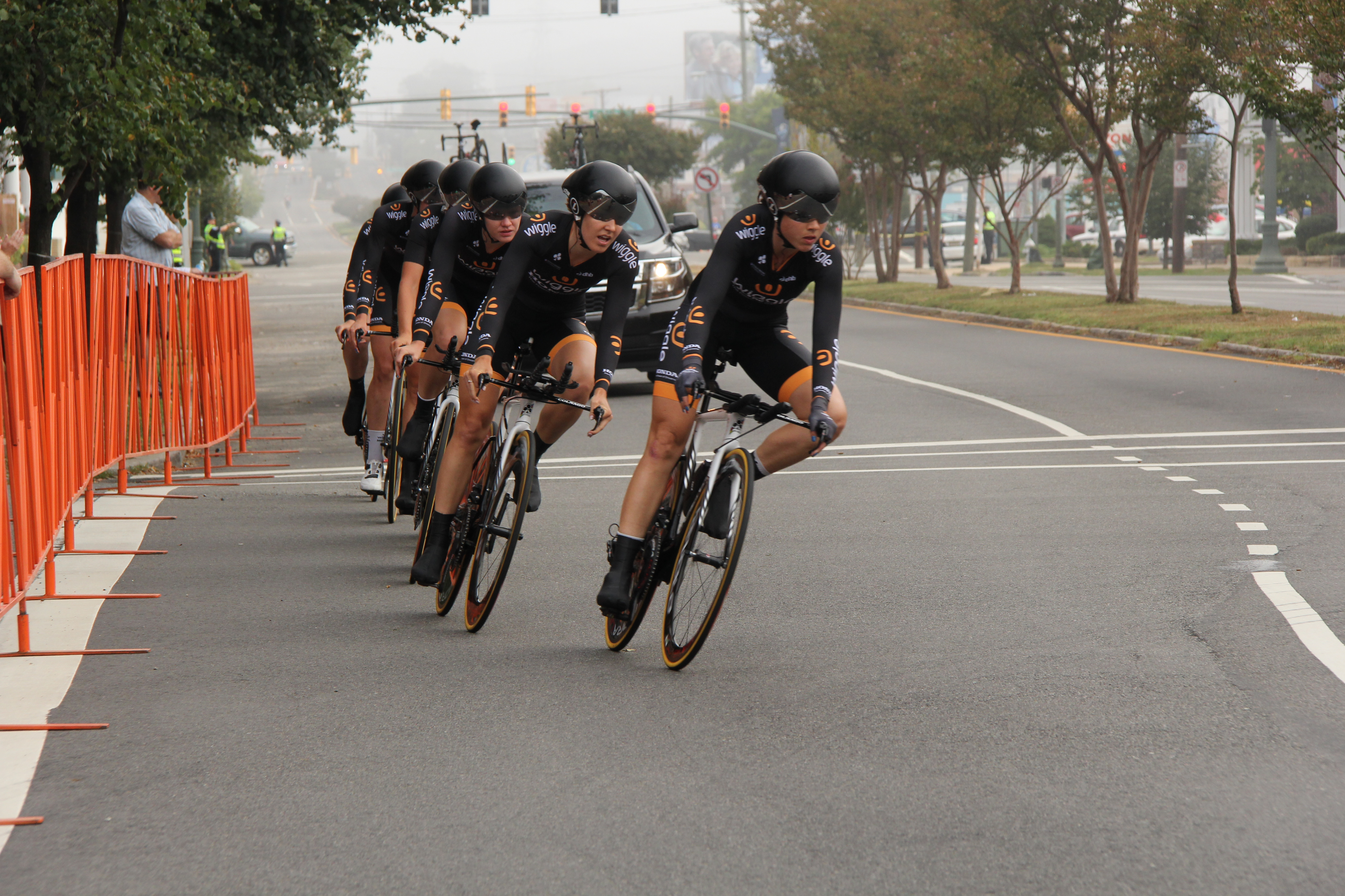 The world has come to Richmond. Welcome! Bienvenidos! Willkommen! 2015 UCI Road World Championships, in Richmond, United States